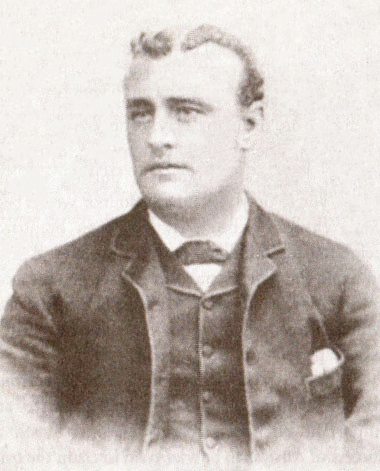 Photo of Joey Palmer